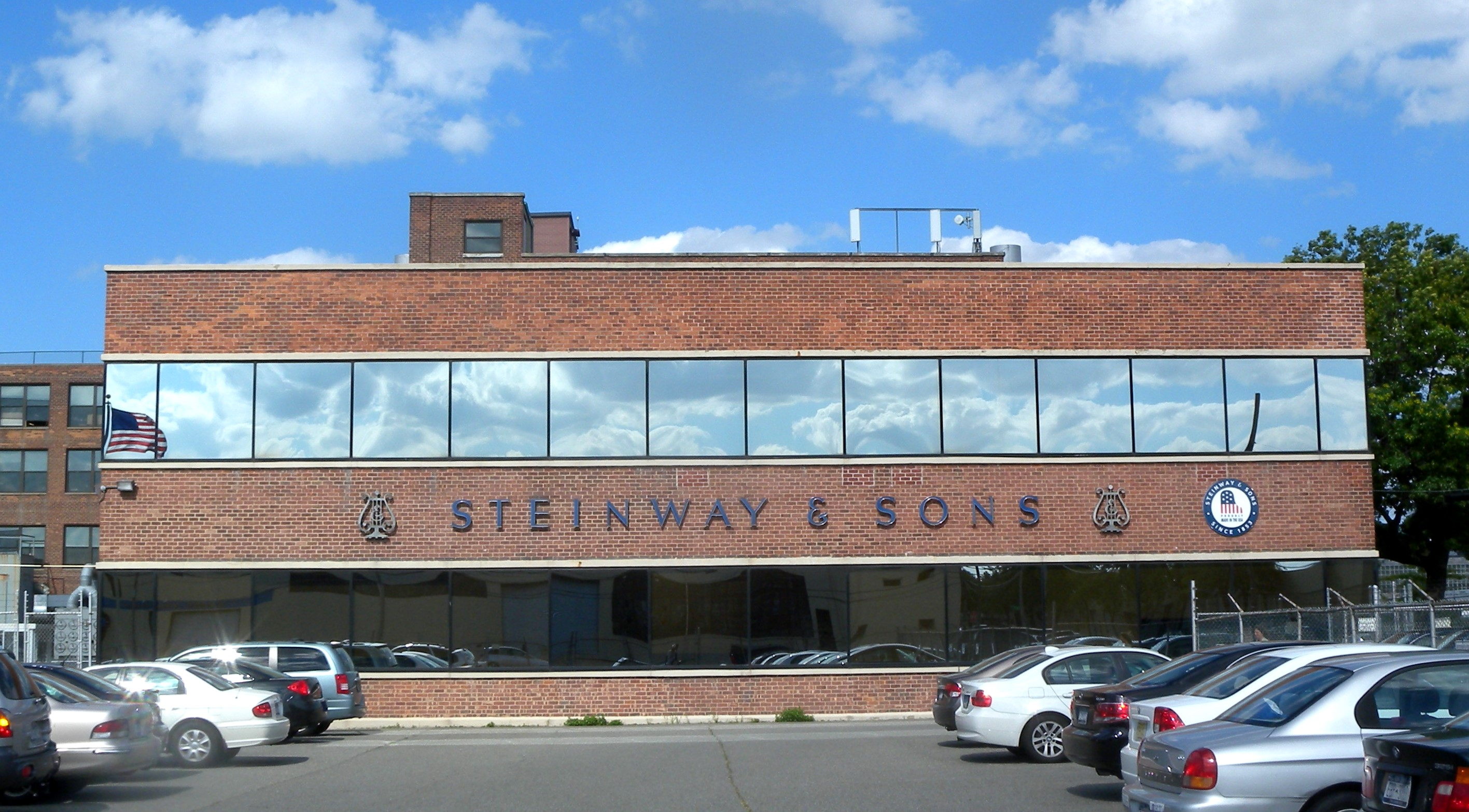 Looking northeast from 19th Avenue west of Steinway Street at the Steinway factory on a mostly sunny early afternoon.